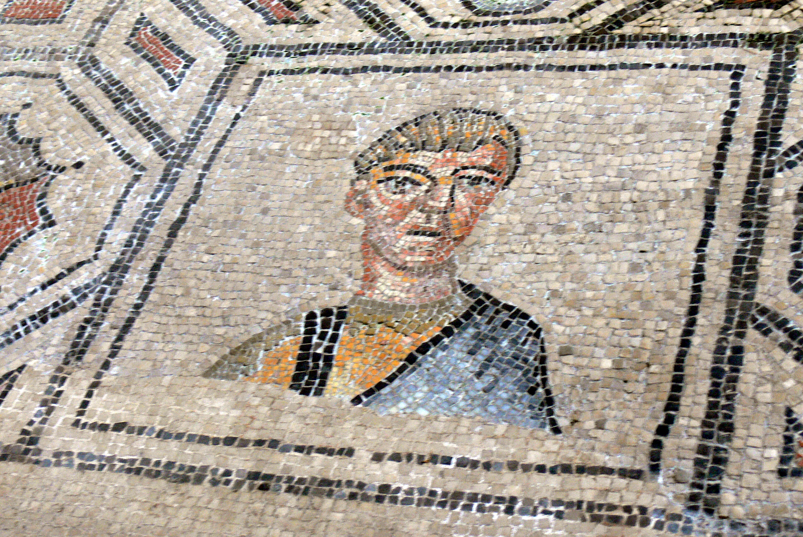 Patriarch's basilica, Aquileia. Mosaic ( 4th century ) with bust of a male donor.